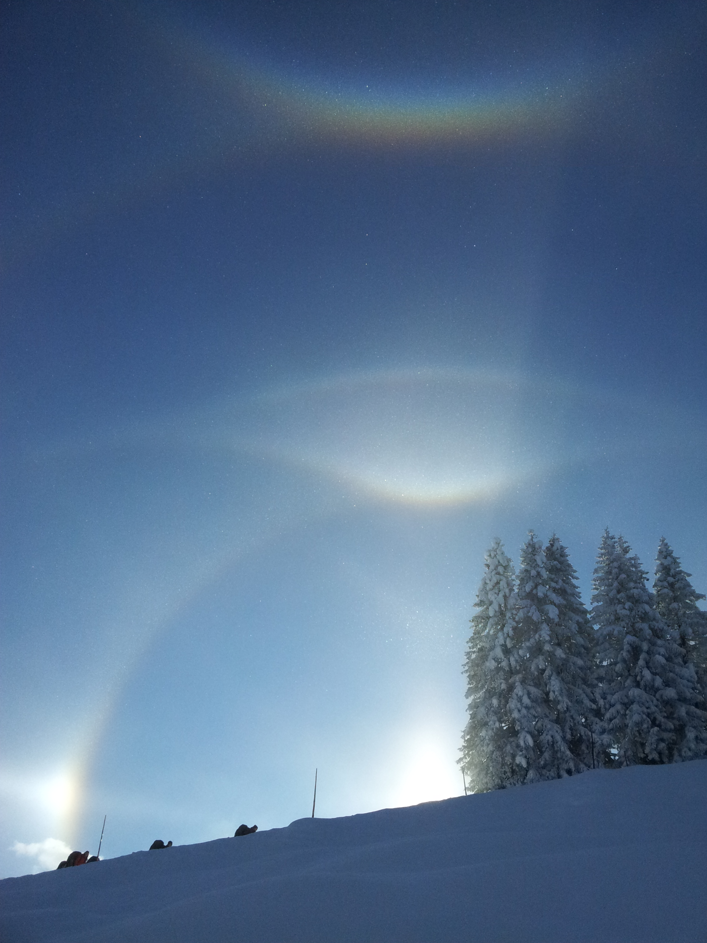 Different Halos (optical phenomenon)